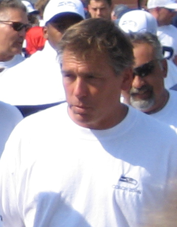 Picture of Jim Zorn, former Seattle Seahawks player and current Washington Redskins head coach. Cropped from Image:SeahawksTC-EWU-091.jpg: "Picture of Seahawks players walking a gauntlet of fans at Eastern Washington University, Cheney Washington, following the team scrimmage. #48, TE Keith Willis signs; unknown coach (center) walks with QB coach Jim Zorn (right)."